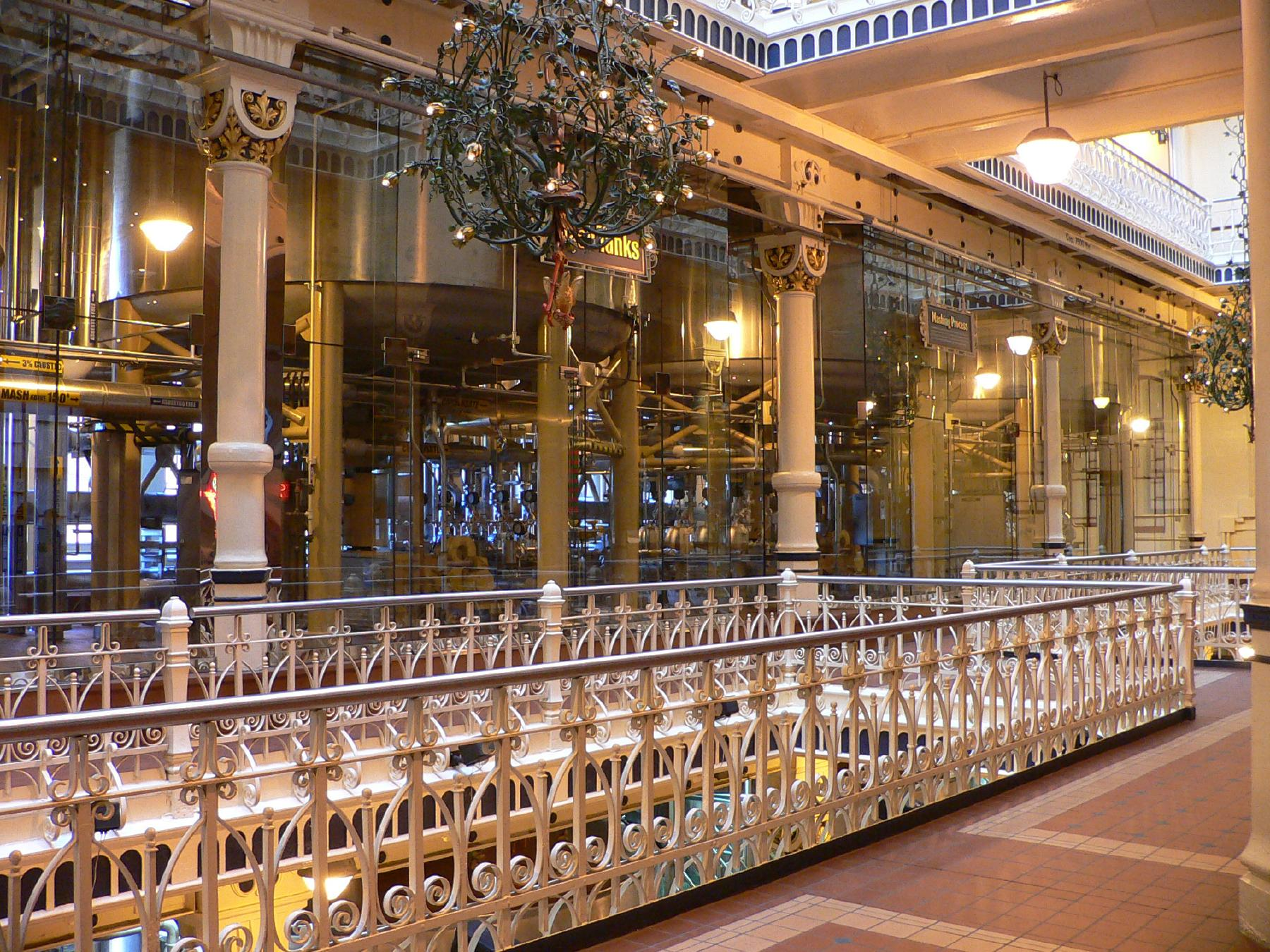 Anheuser-Busch plant, St. Louis, MO USA